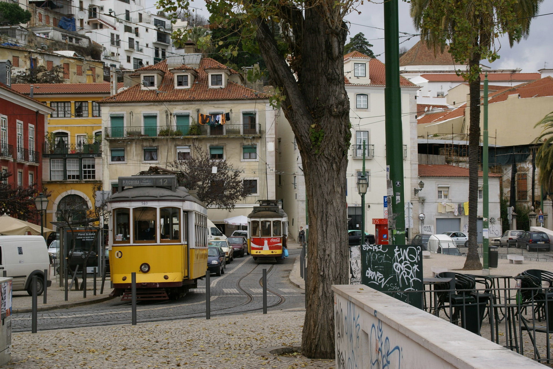 Trams in Lisbon